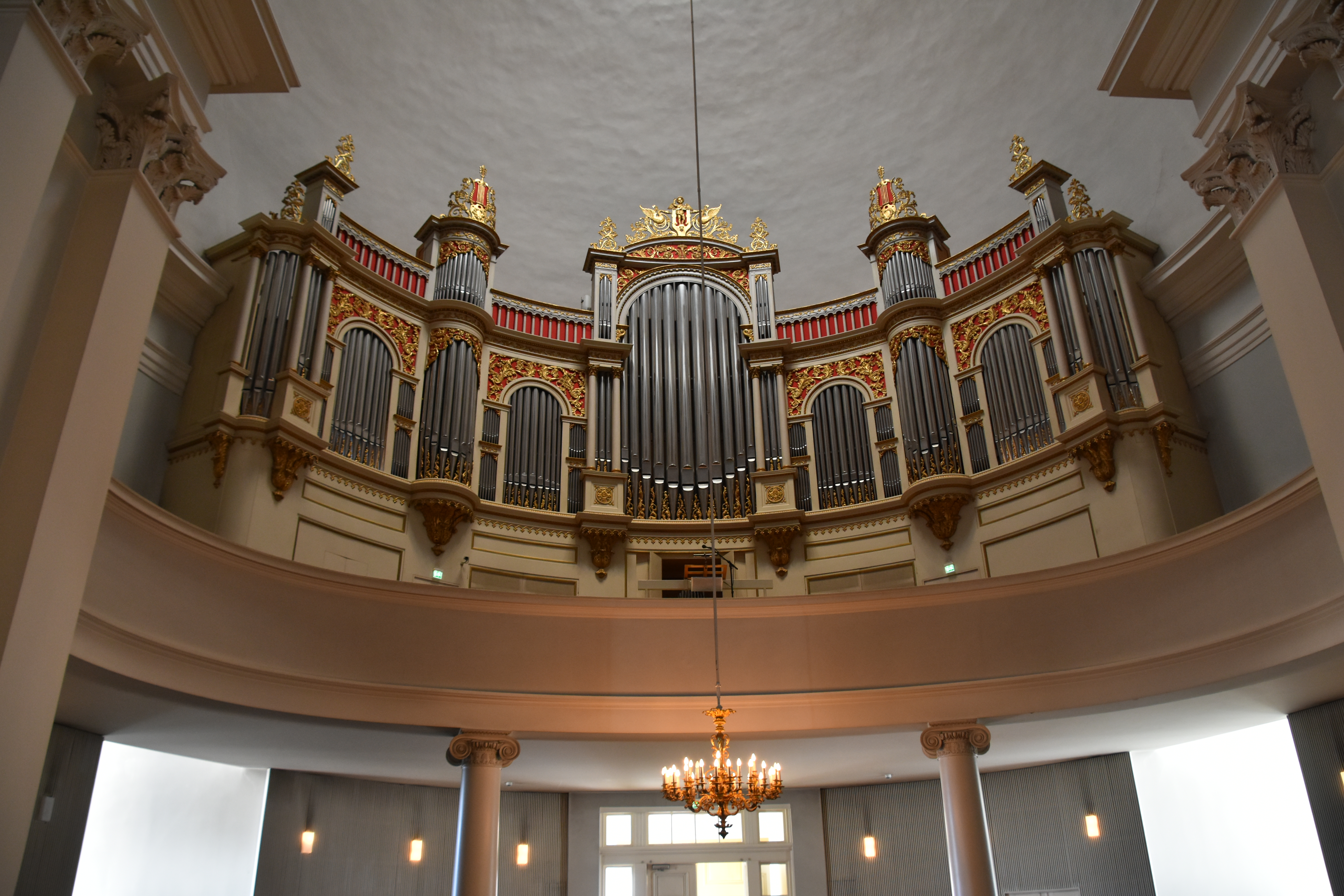 Helsinki Cathedral, 1852 (13)